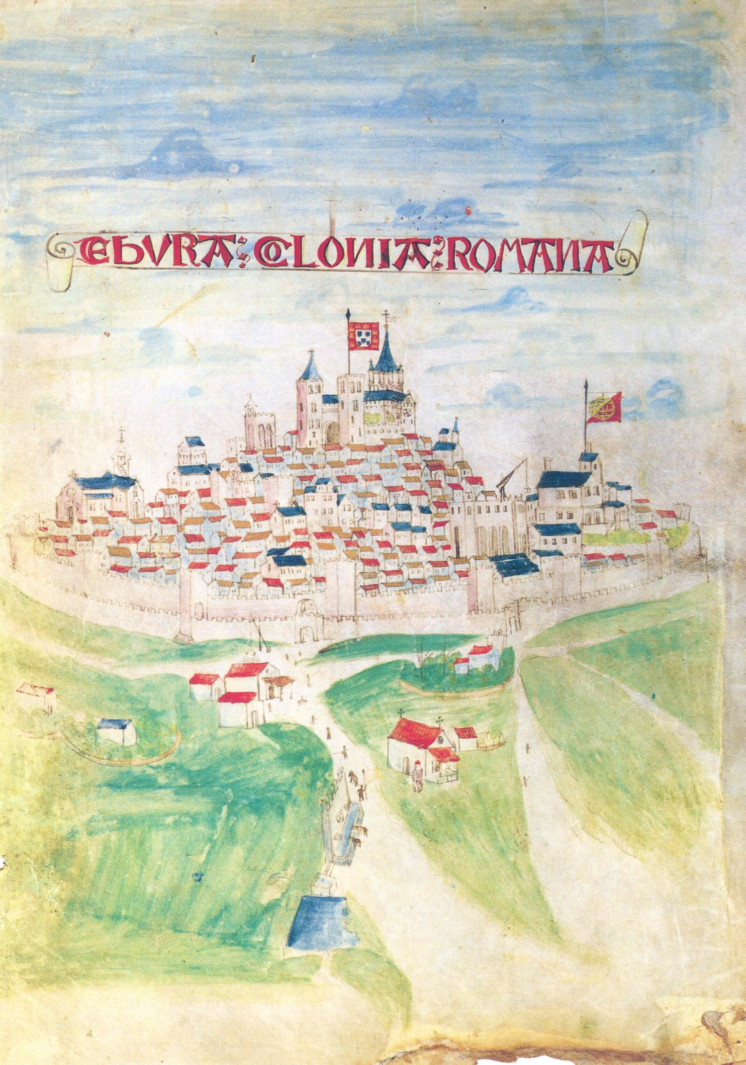 View of the city of Évora in an early-16th century illuminated chart of feudal rights (foral)